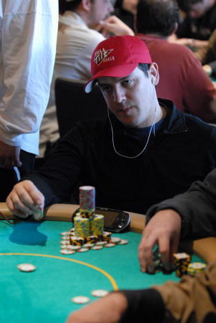 Carlos Mortensen at World Poker Tour 2007